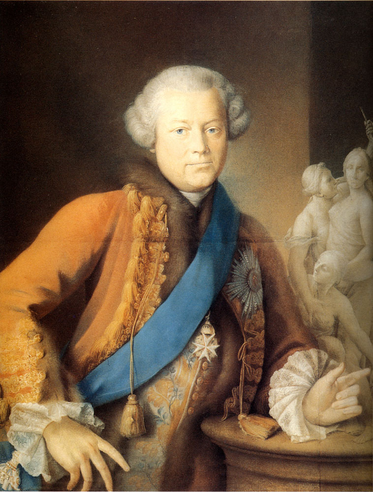 Portrait of Frederick of Brandenburg-Bayreuth (1711-1763)